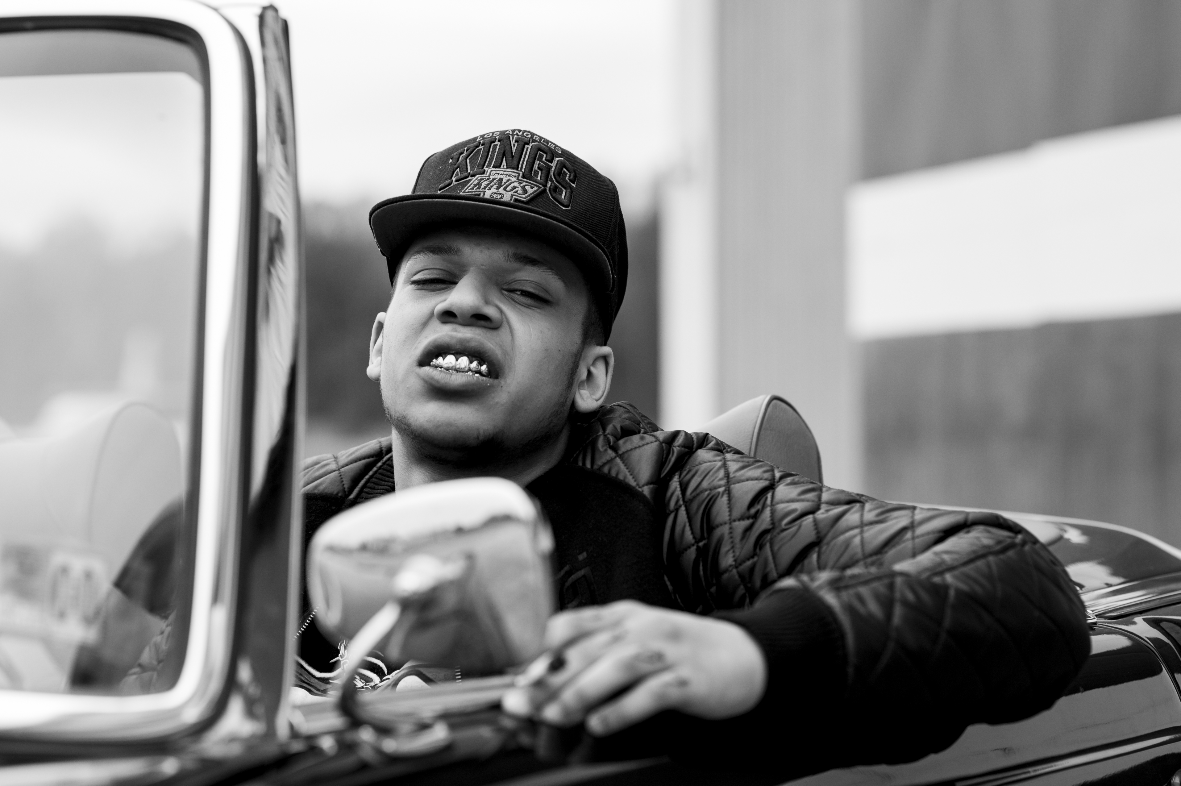 Pressefoto von King Eazy